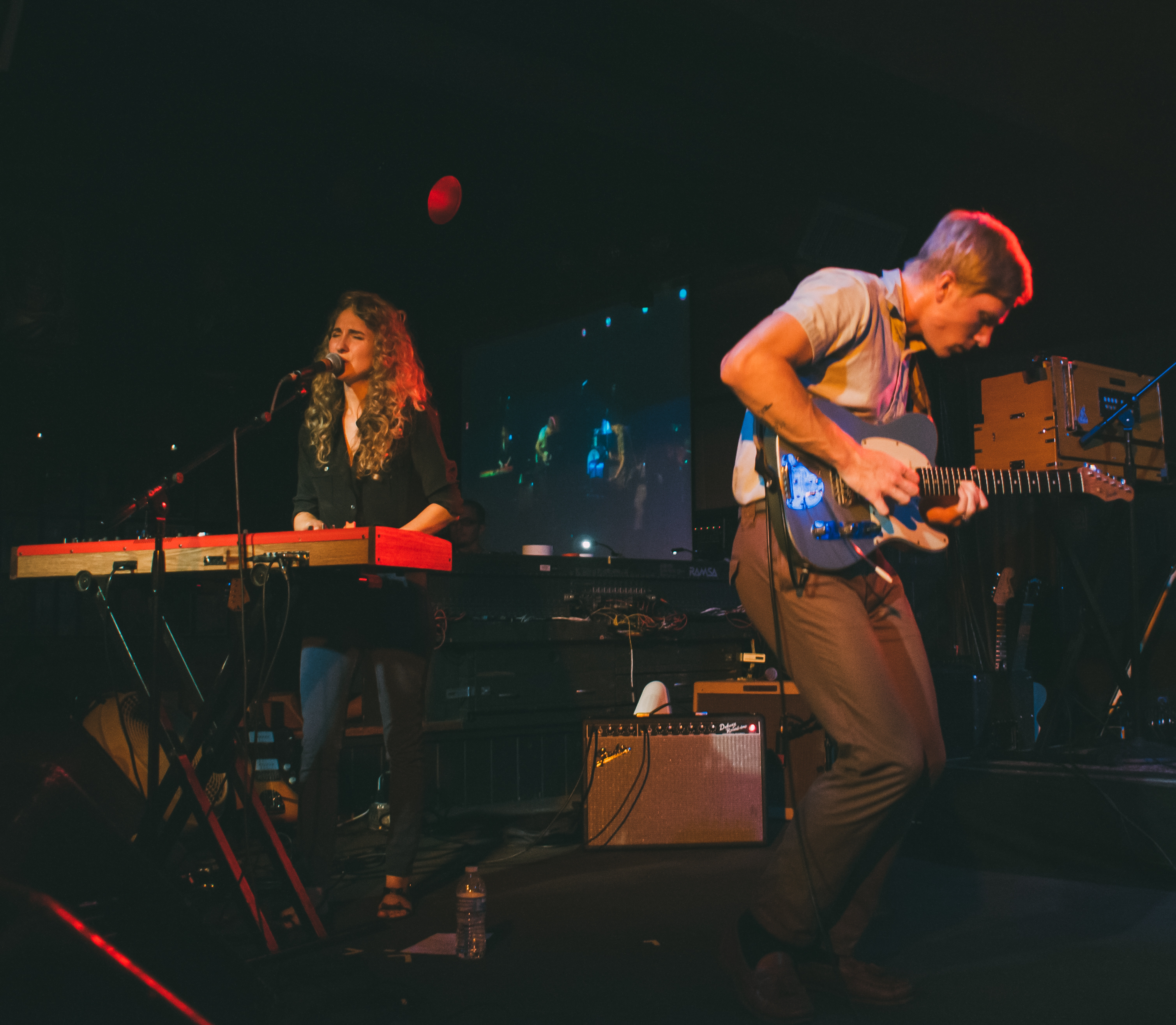 Tennis live in 2012